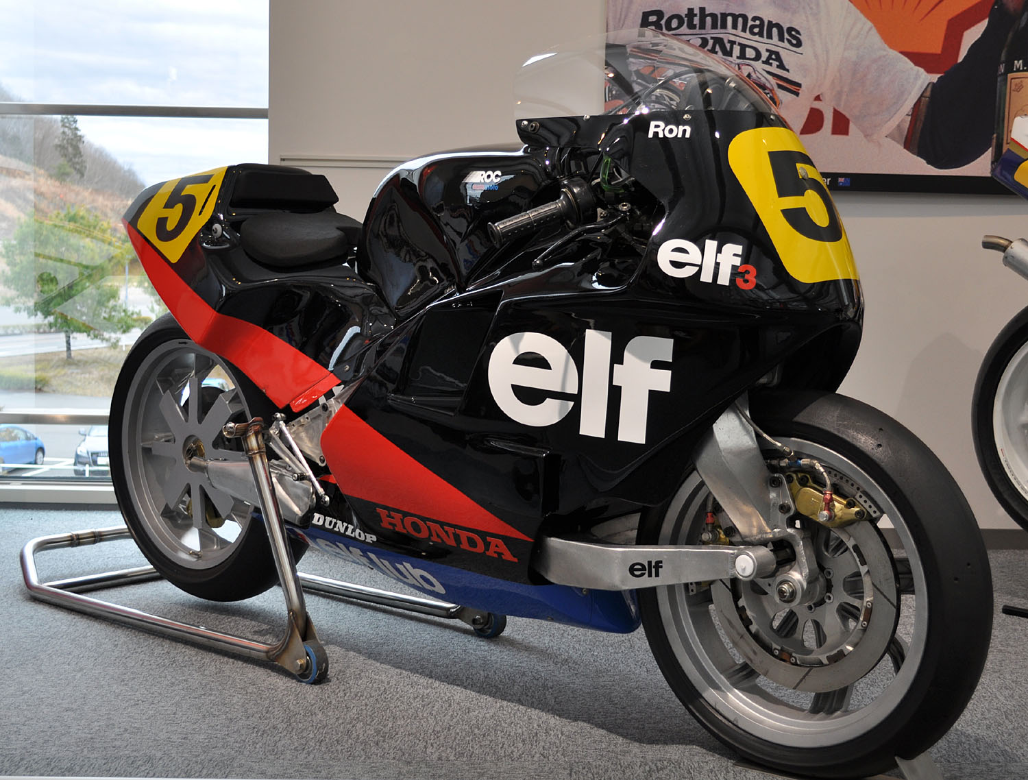 Elf 3 (Ron Haslam, 1986)